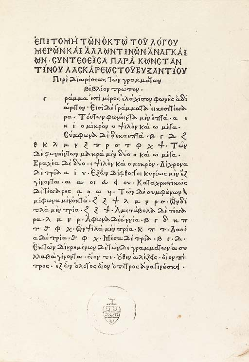 A page from Constantine Lascaris' Epitome (sometimes called Erotemata), the first book print entirely in Greek. Dated 30 January 1476. The characters (font) were designed by Demetrios Damilas. The book was printed in Milan by Dionisio de Parravisino. The book made later several other editions. Dimensions 23cm x 16cm. 76 leaves.